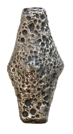 Kievan Hryvna (11th-13th cen.)